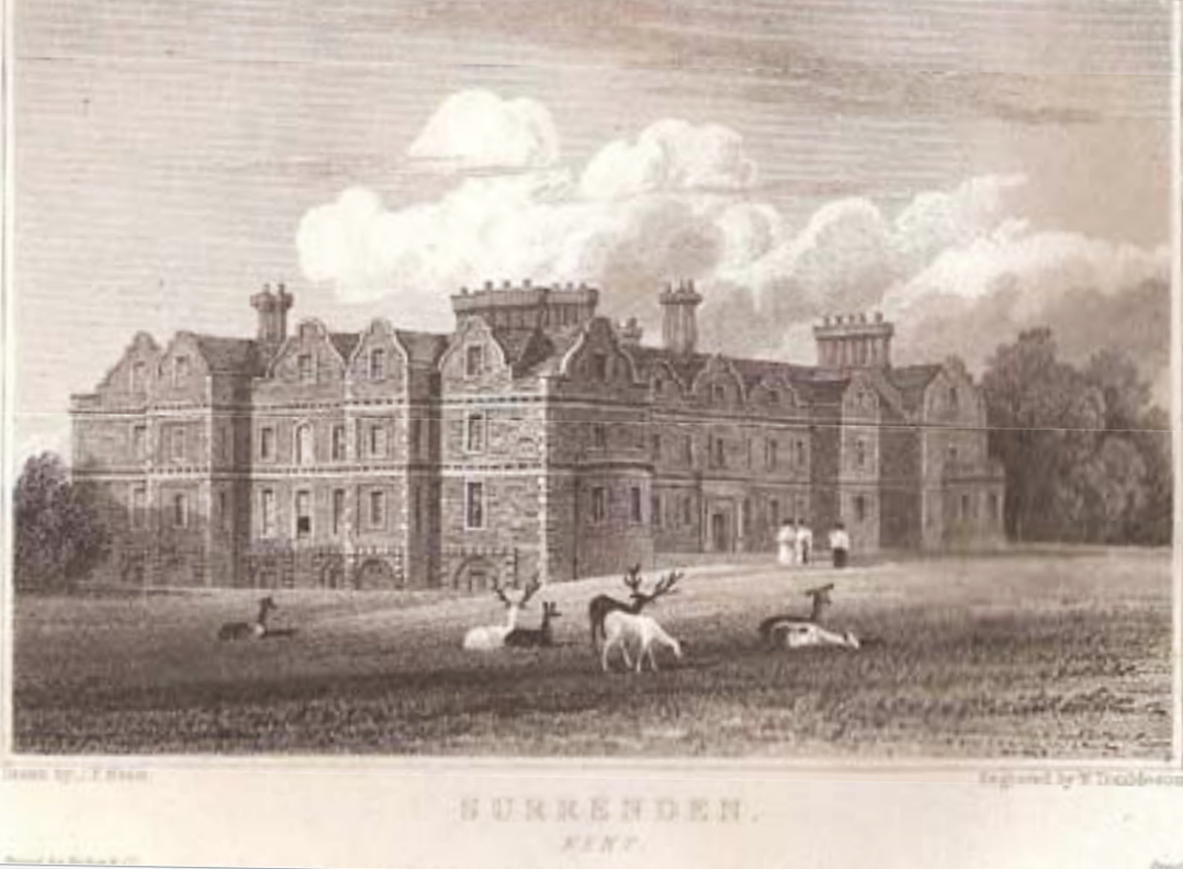 Drawing of Surrenden House by J.P. Neale, published 1826.